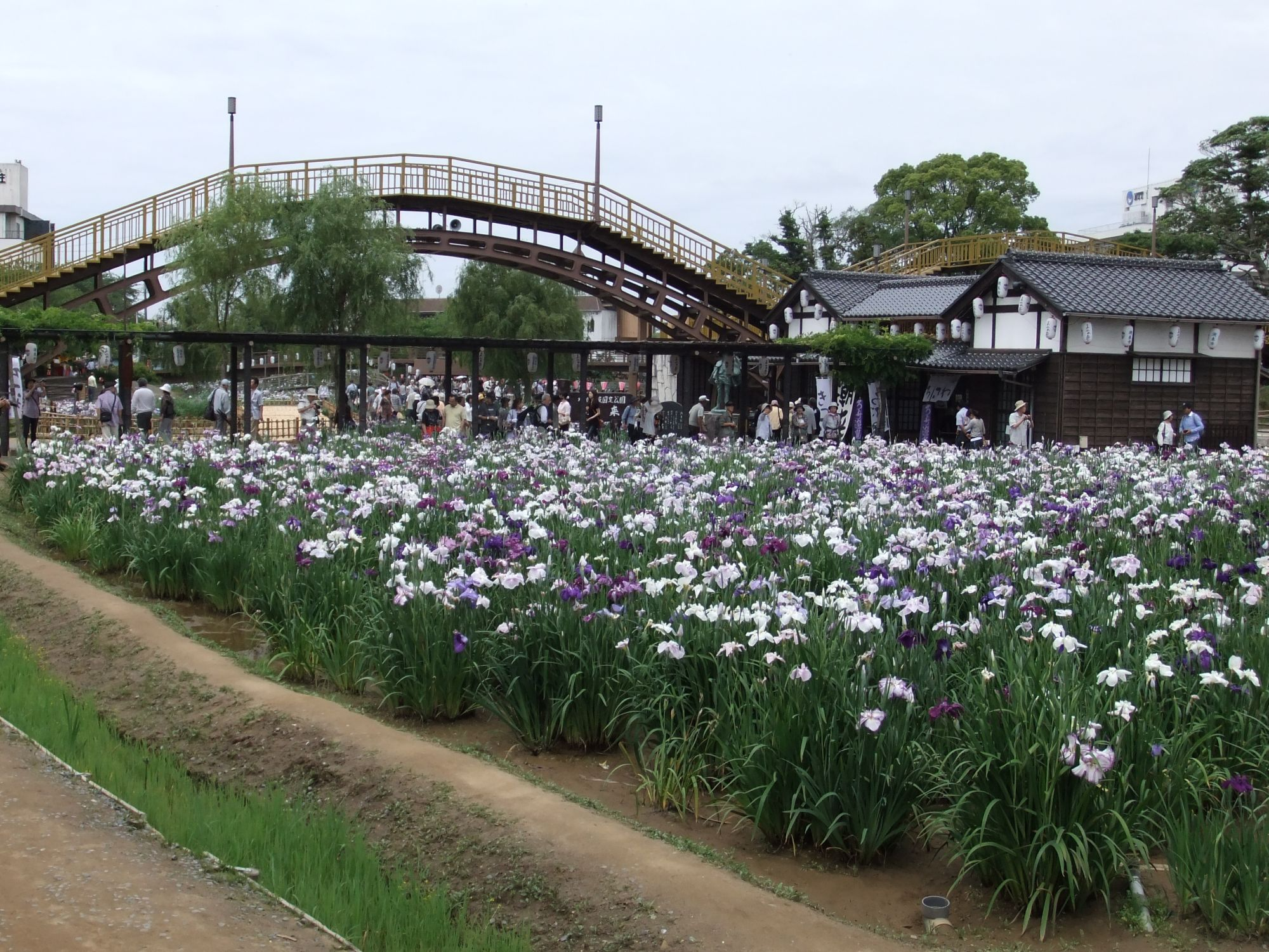 Suigō Itako Ayame-en (Maekawa Iris Garden) in Itako-shi, Ibaraki